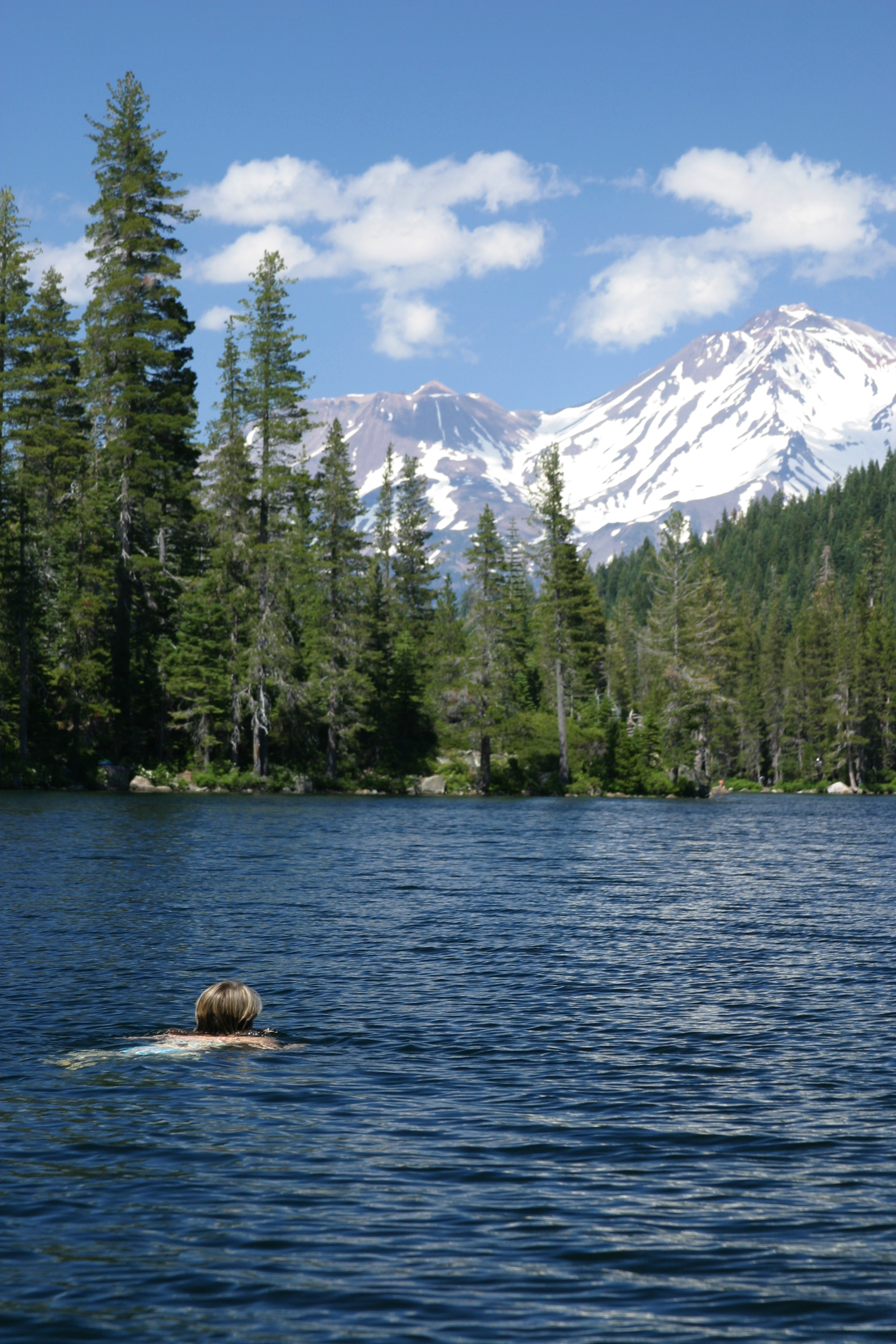 Mt. Shasta and Castle Lake, Shasta-Trinity National Forrest, California, USA